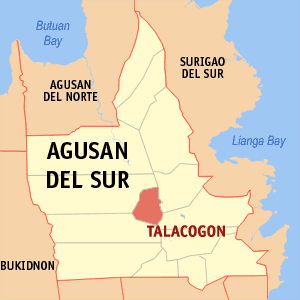 Map of the Agusan del Sur showing the location of Talacogon